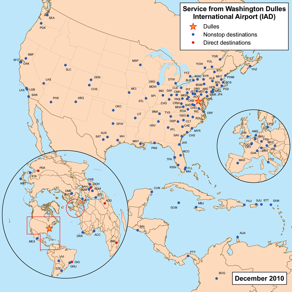 This is a route map for Washington Dulles International Airport. Map is an Azimuthal equidistant projection centered on the airport so straight lines from Dulles are along great circle routes. Source.